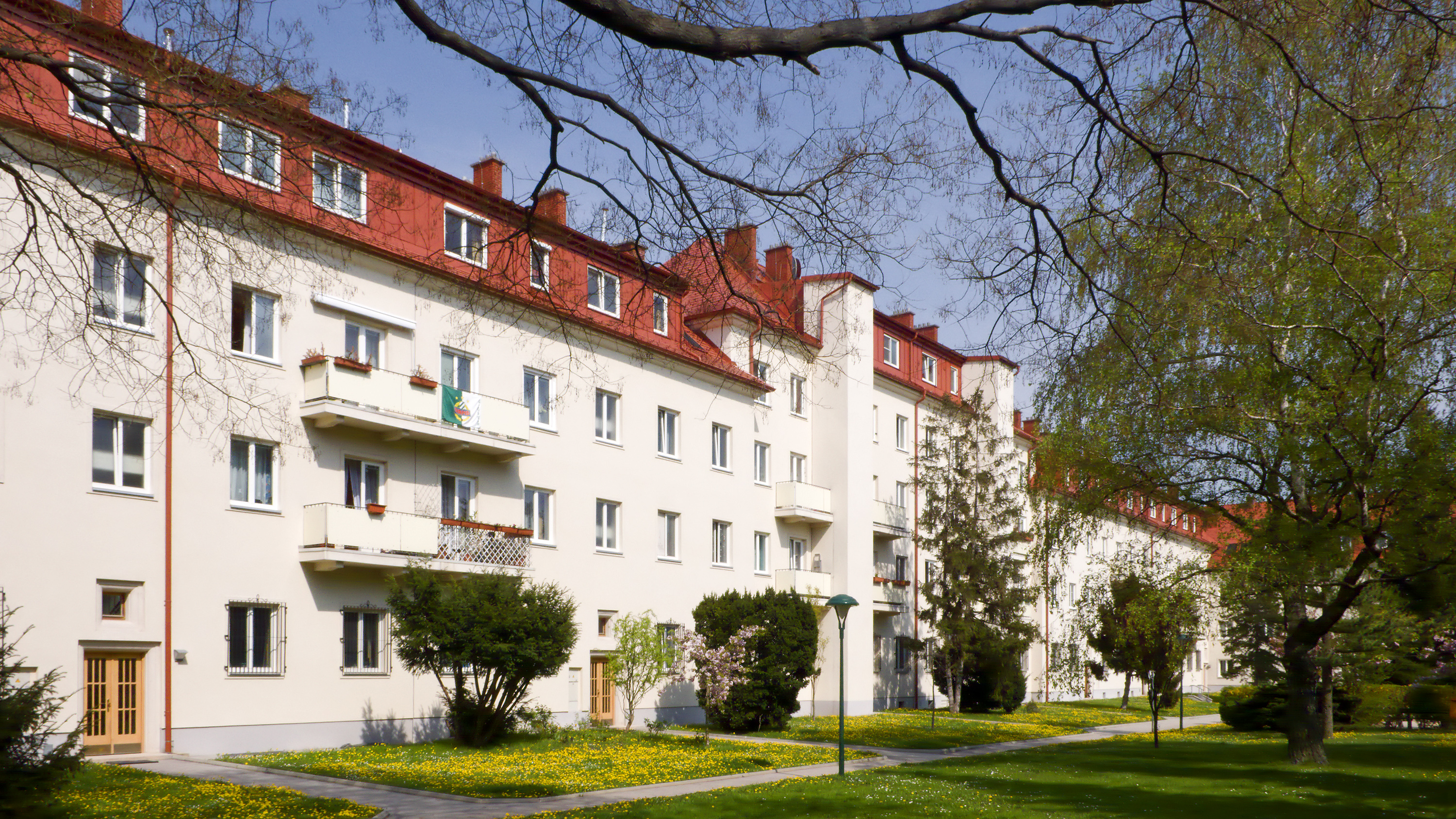 Residential building Hugo-Breitner-Hof in Vienna Penzing